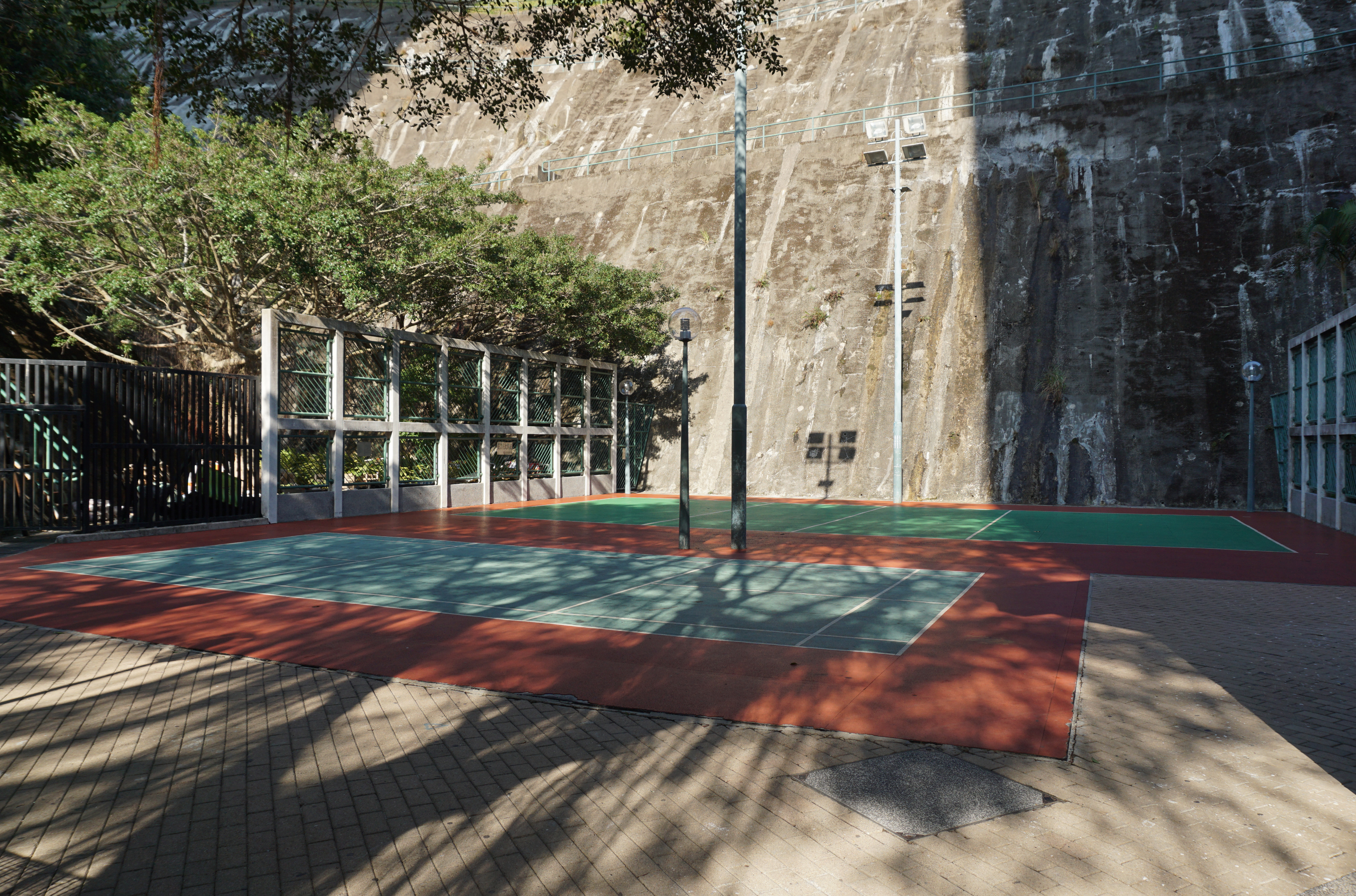 On Yam Estate in Shek Yam, Hong Kong.